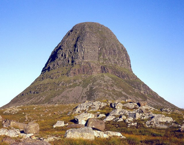 NW end of a classic example of a mesa form of mountain.